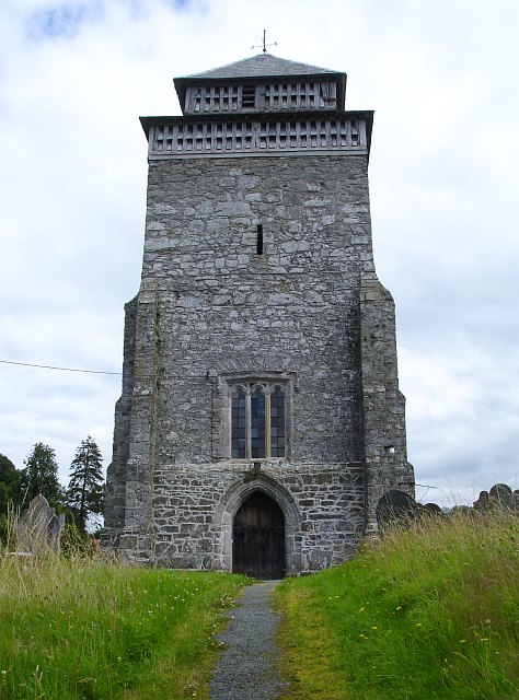 Tower of St Beuno's, Bettws Cedewain. Standing in a prominent position on the hill behind the New Inn 503766 the original church was founded by St Beuno in the 6th century. The present tower with its two stage timber belfry was built in the 1520s. For more details on the church